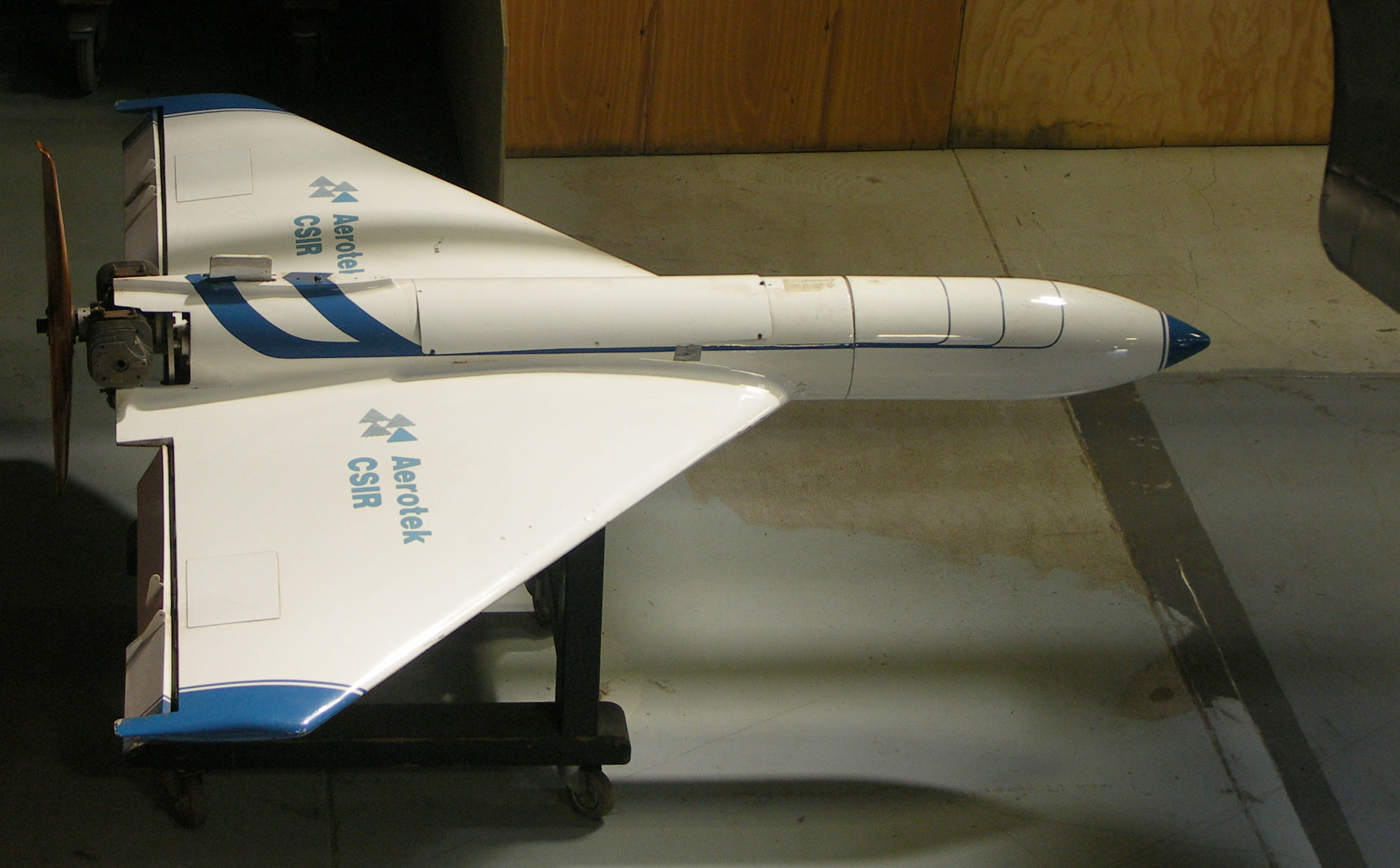 CSIR Aerotek SkyFly Target Drone Prototype (a copy of Meggitt Banshee) at the South African Air Force Museum in Swartkop, Pretoria